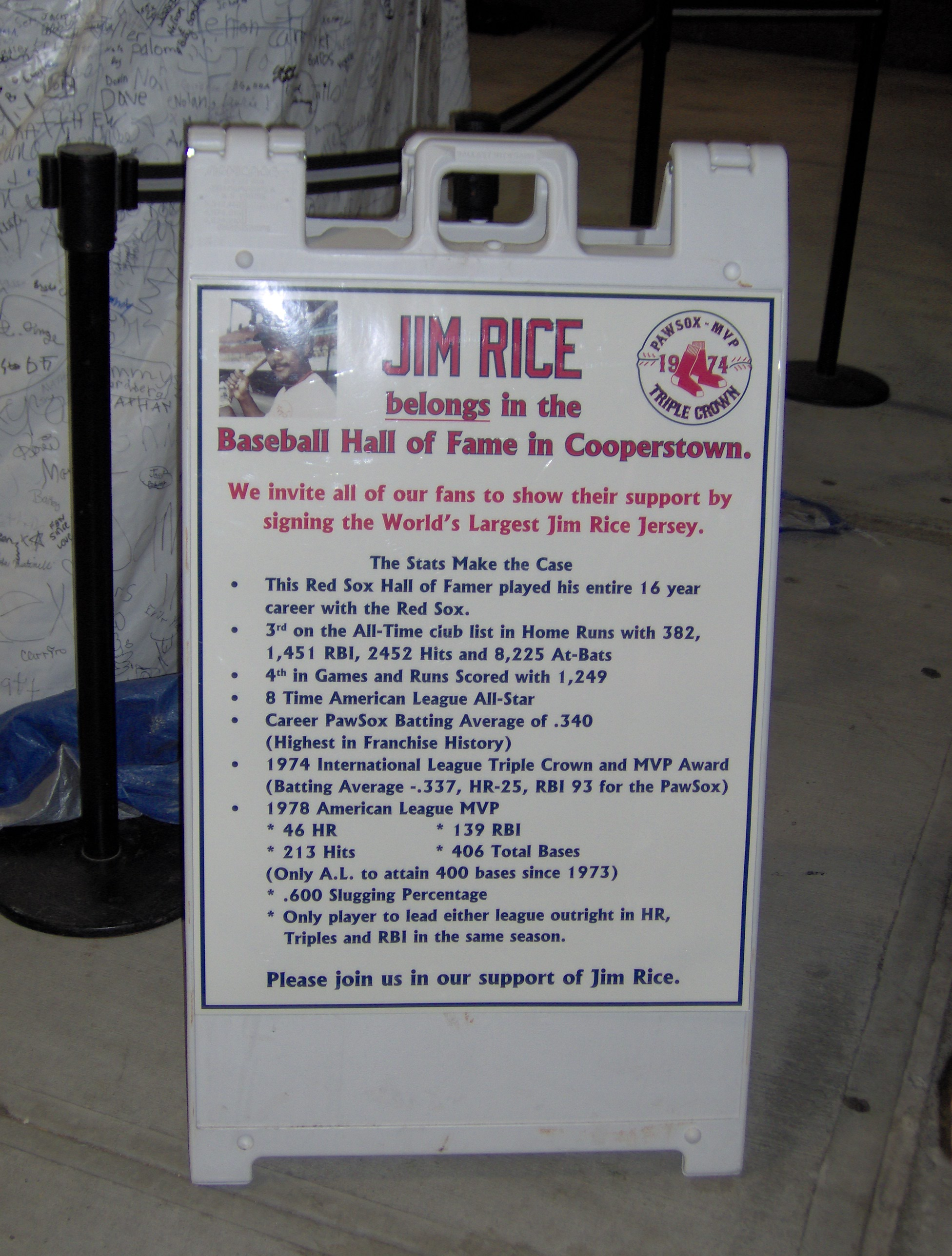 I took this picture myself.